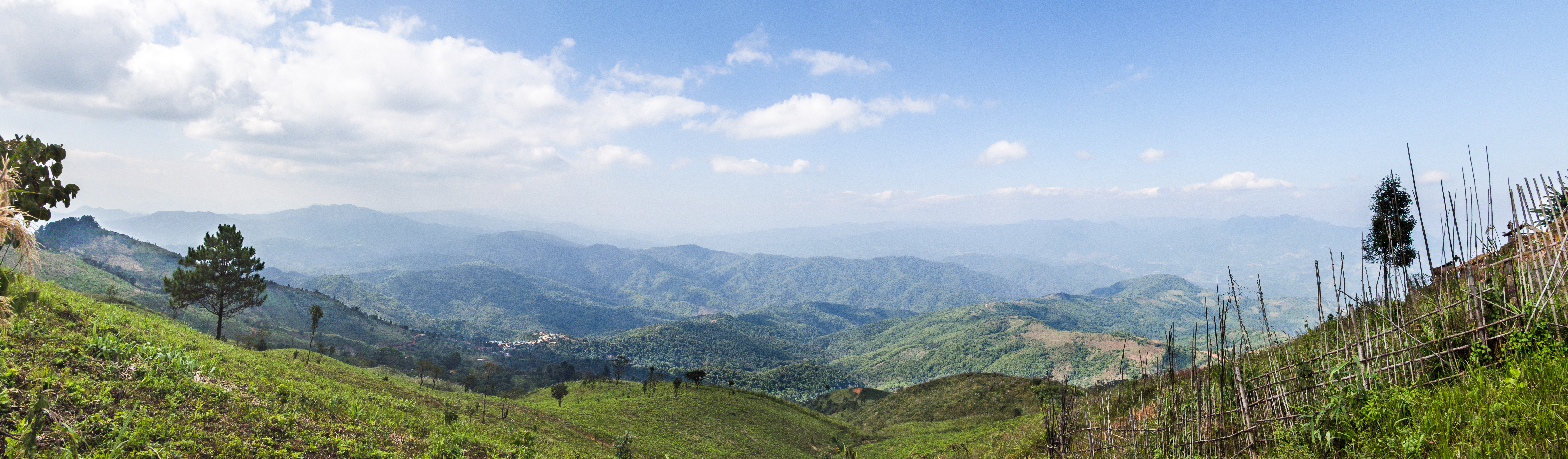 Looking out over Tachileik District, Shan State, Burma, into the heart of the Daen Lao Range from Thai road number 1149 in Mae Sai District, which runs partway along the border with Burma. Technically, I was standing inside Burma, if only by about 1 meter, when I made the images used in this panorama. This image was created with Hugin.